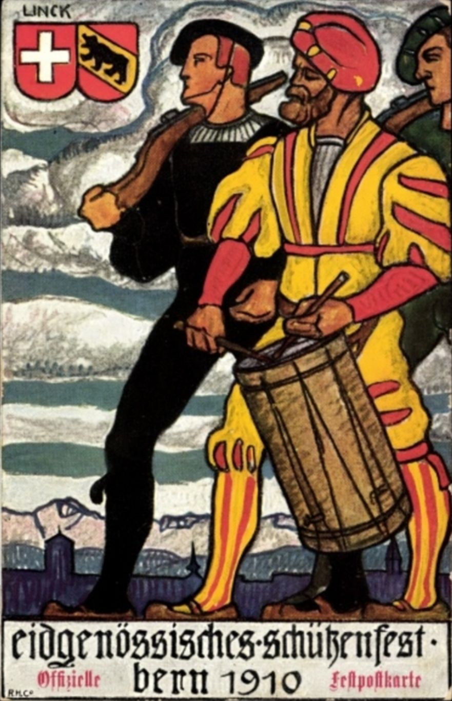 Eidgenössisches Schützenfest 1910, Bern, Schweiz